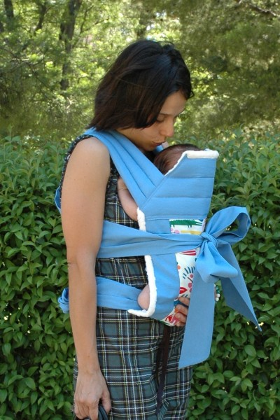 Mother with mei tai Portazagales